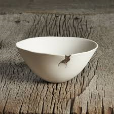 Vabi Sabi indai